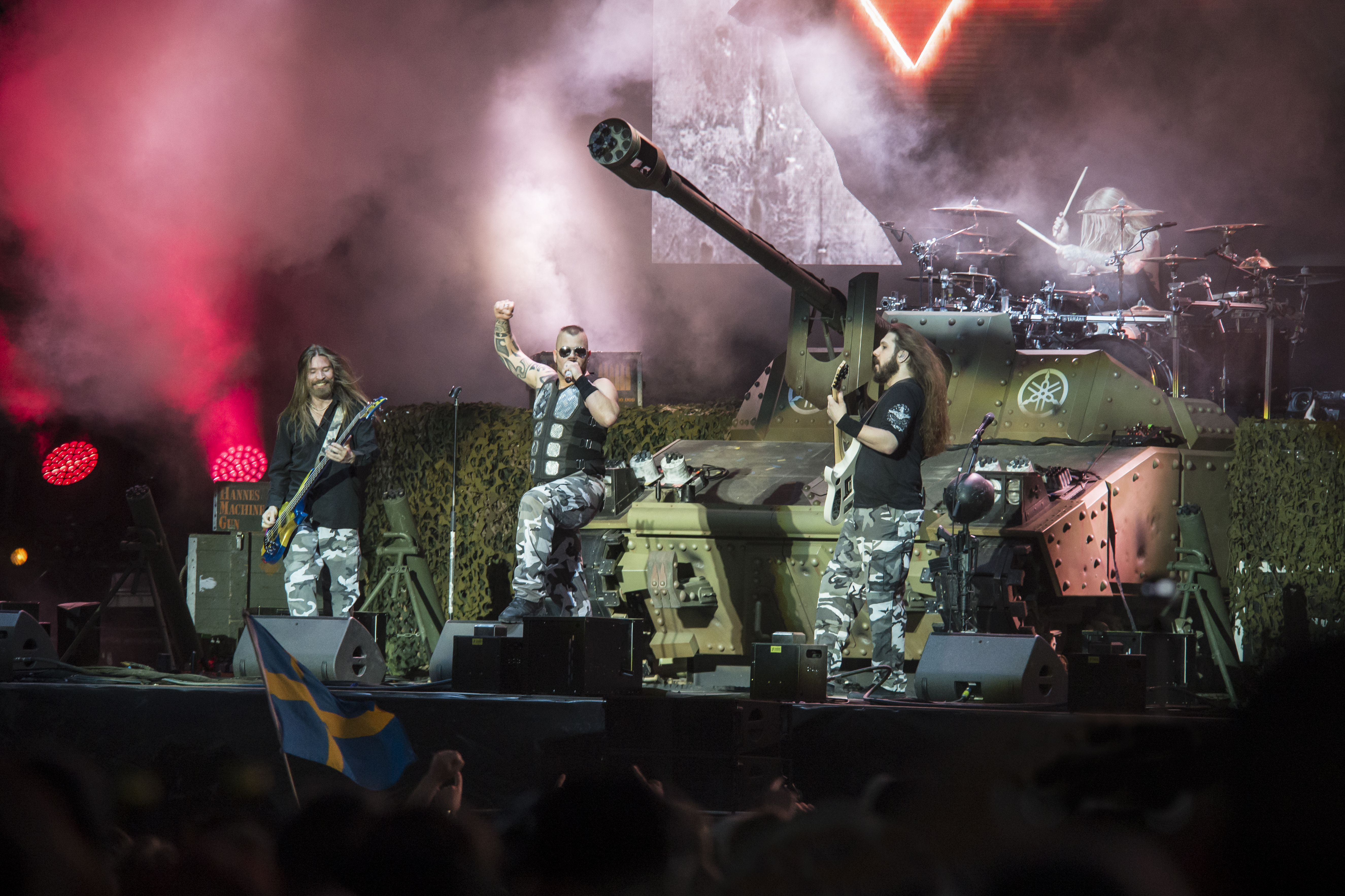 Sabaton show at 2017 Hellfest, France.